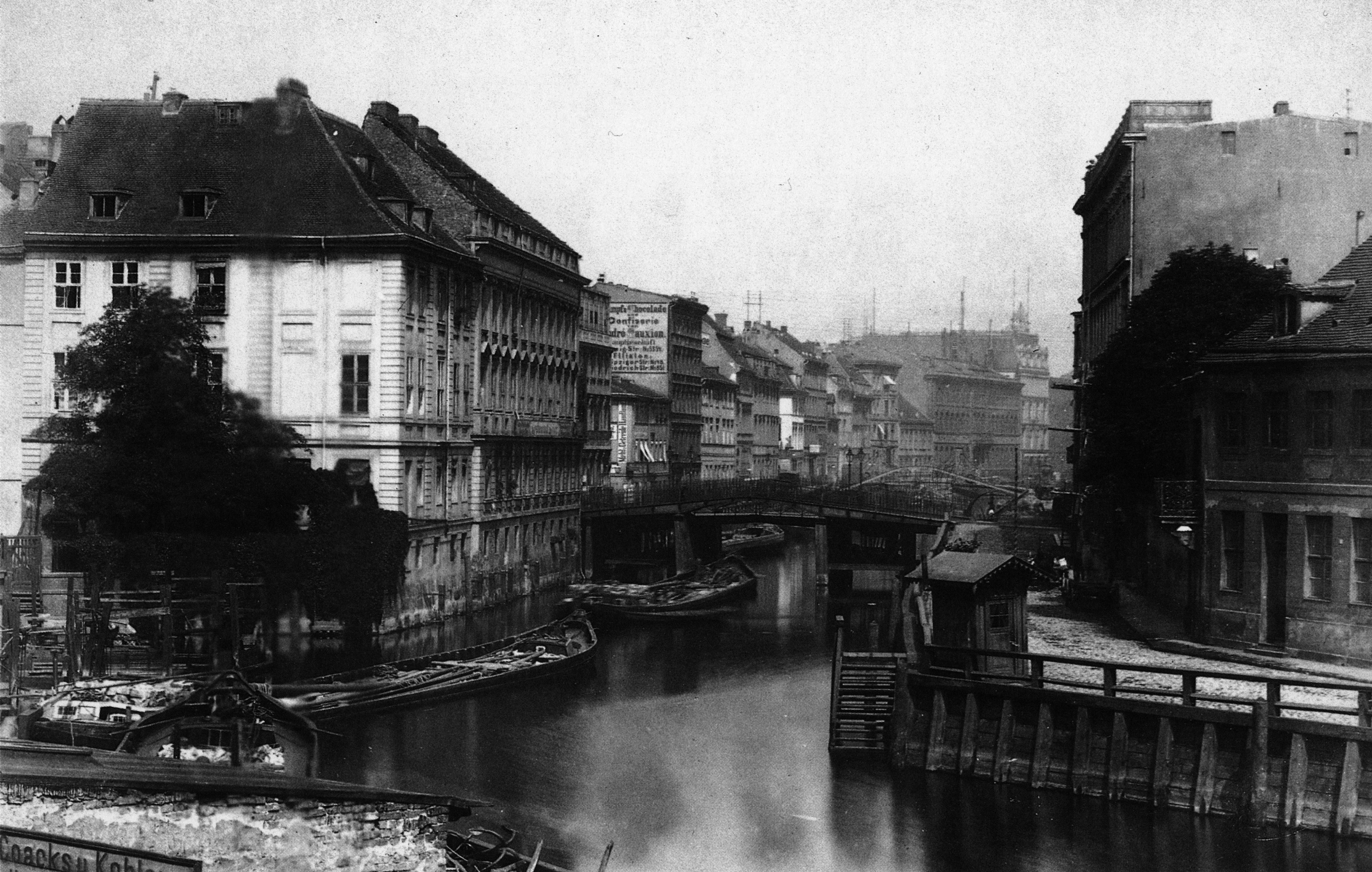 The Spreekanal on the western side of Spree Island in Berlin. The bridge is the Gertraudenbrücke that connects Friedrichswerder and Cölln.